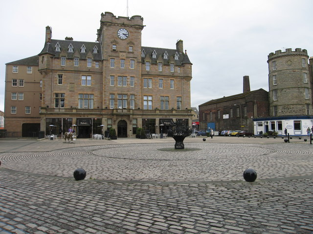 The Malmaison Hotel and former Mylnes Mill, Leith